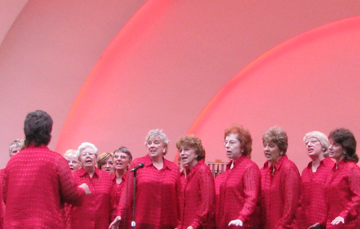 The Red Cedar Sounds at the Sarge Boyd Bandshell in Eau Claire, Wisconsin